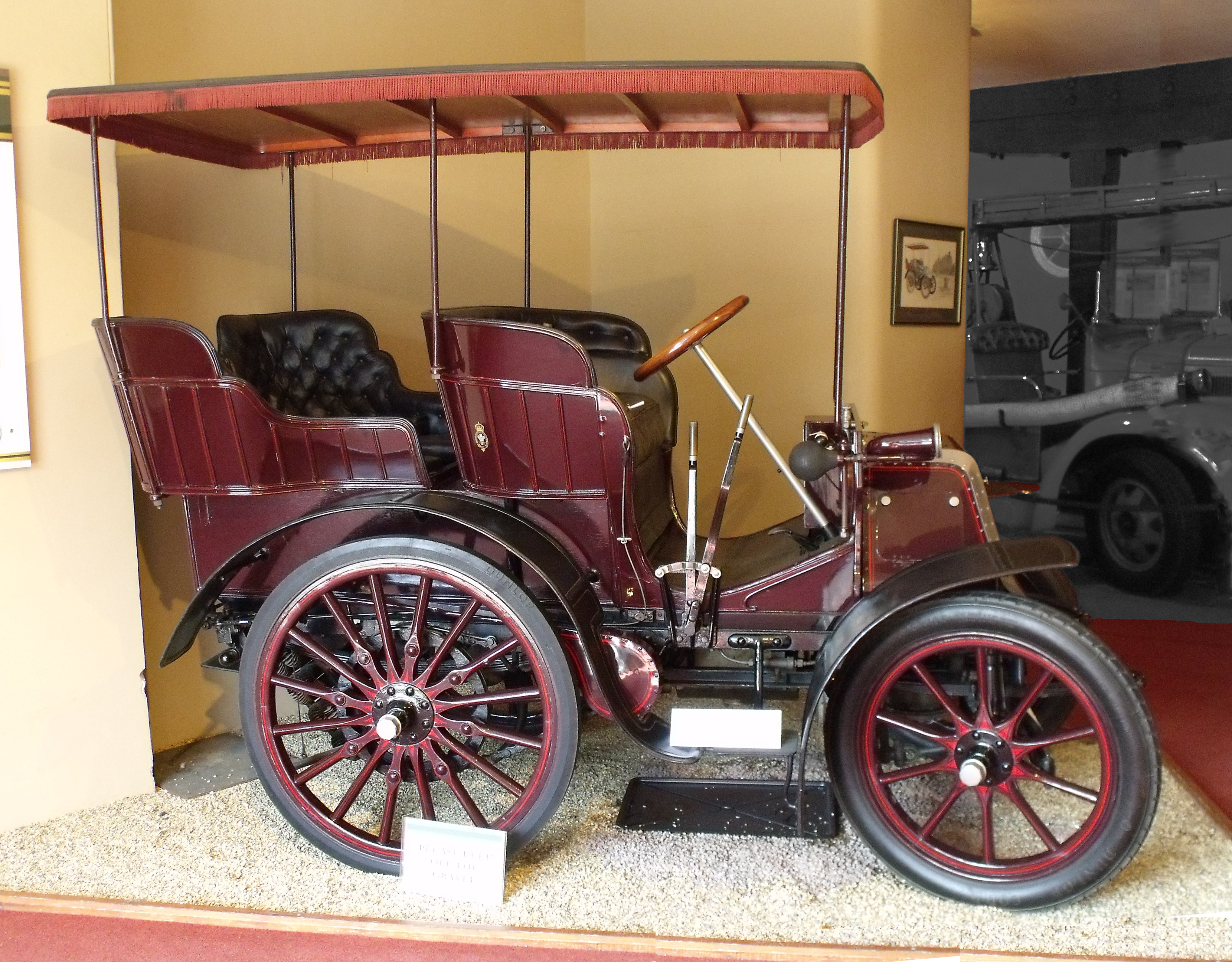 6 horsepower Daimler car manufactured 1899-1900 fitted with a "mail phaeton" style body and subsequent additions including the distinctive Surrey top with a fringe. The very first Royal car it was purchased by the future King Edward VII then Prince of Wales. The Sandringham Museum states that he was undoubtedly influenced in his decision by Lord Montagu of Beaulieu but the final credit for persuading him to purchase a Daimler goes to Mr Oliver Stanton, cycling tutor to the Prince of Wales. The car was seen by the Prince in January 1900 and delivered in June 1900. It was restored by the National Motor Museum between 1977 and 1979 to mark Her Majesty The Queen's Silver Jubilee and has been returned to its original condition and full working order. The first Royal chauffeur was a Mr S Letzer, "The Prince of Wales's Mechanician"